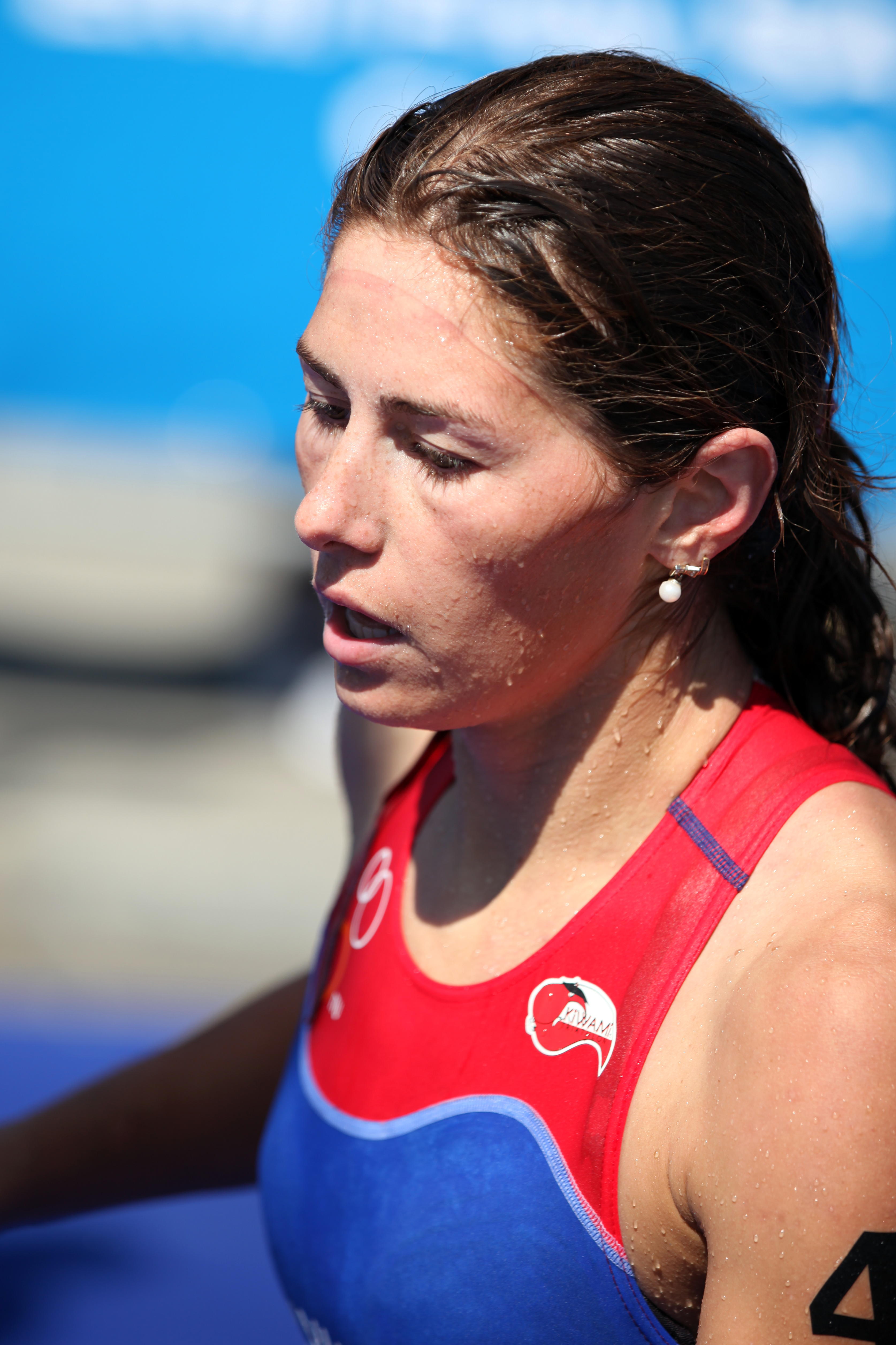 Anastasiya Polyanskaya, née Yatesenko, Russian Анастасия Сергеевна Полянская Яценко, at the Triathlon Sprint World Championships in Lausanne.